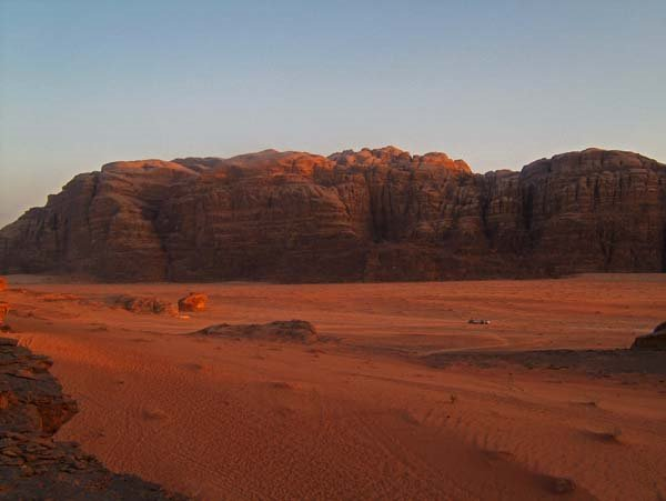 Wadi Rum, Southern Jordan